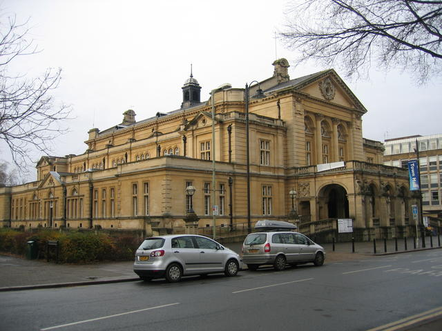 Cheltenham Town Hall This Edwardian Baroque style Town Hall was opened 1902 to commemorate the coronation of Edward VII & Queen Alexandra. It is an important venue for a wide variety of concerts and literary events. After complaints by both performers and audiences work has been undertaken to improve its notoriously poor acoustics.